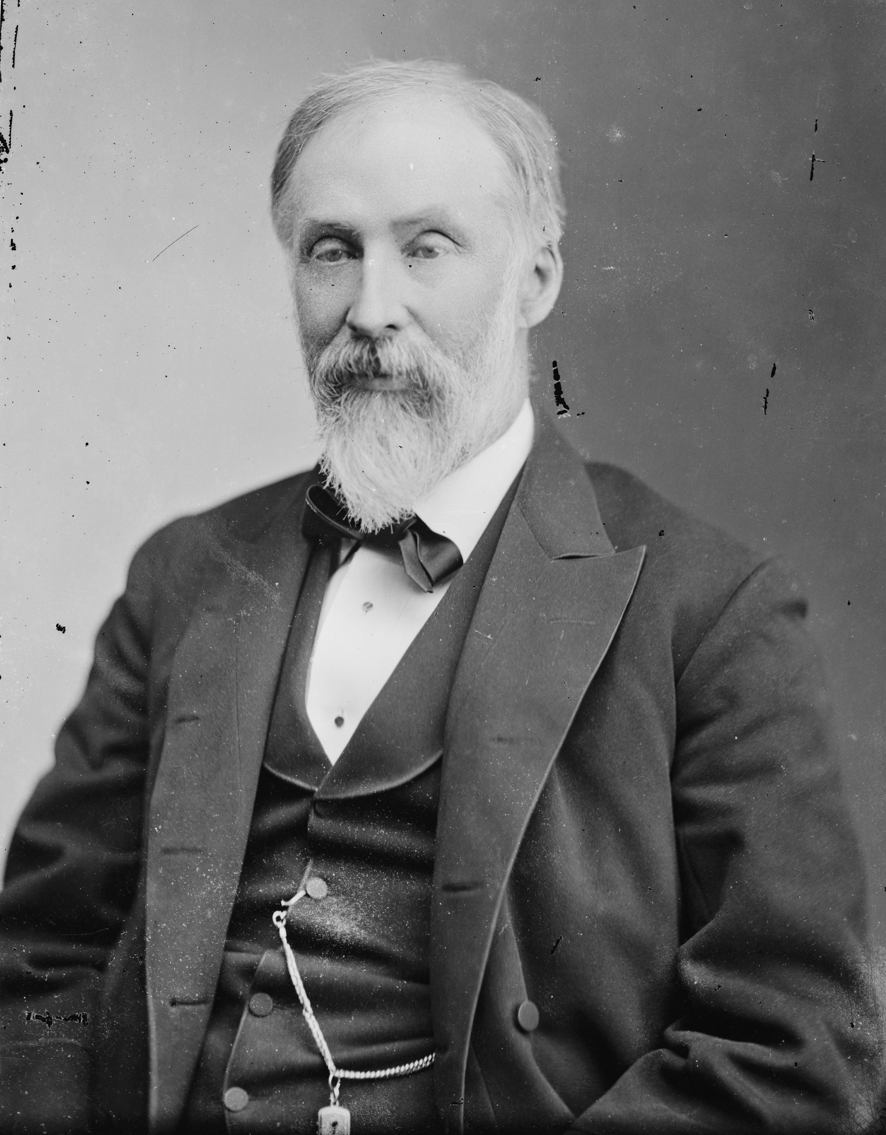 Henry L. Pierce. Library of Congress description: "Hon. (H.L.) Pierce of Mass. M.C."